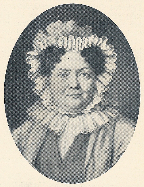 Ane Sørensdatter Lund, the mother of Søren Kierkegaard.